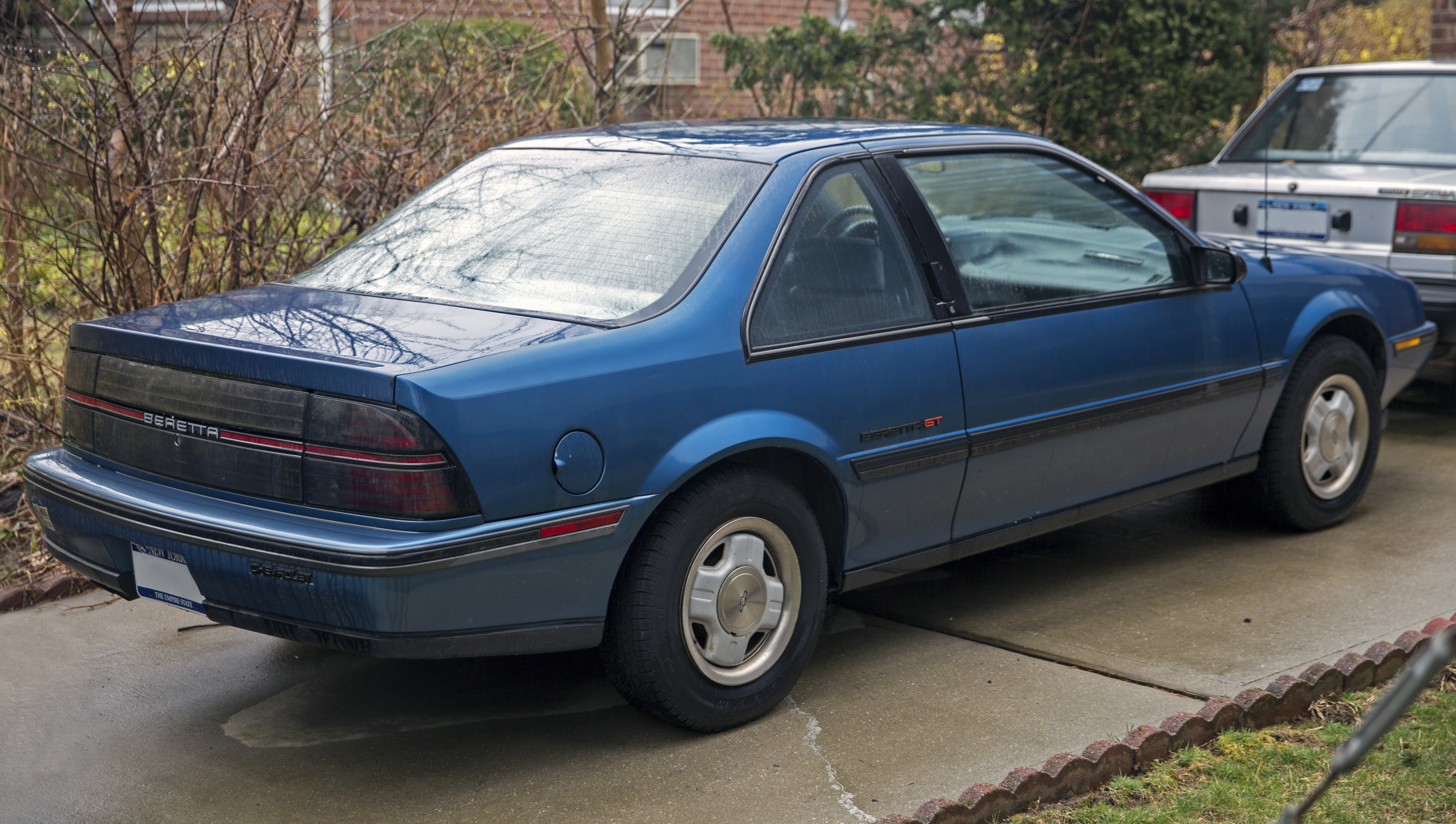 A 1988 Chevrolet Beretta GT. Some peel (photoshopped out), but most of the paint was somehow still hanging on. My sister had one of these in the same color and you could pull huge strips of it off the car, and that was twenty years ago.